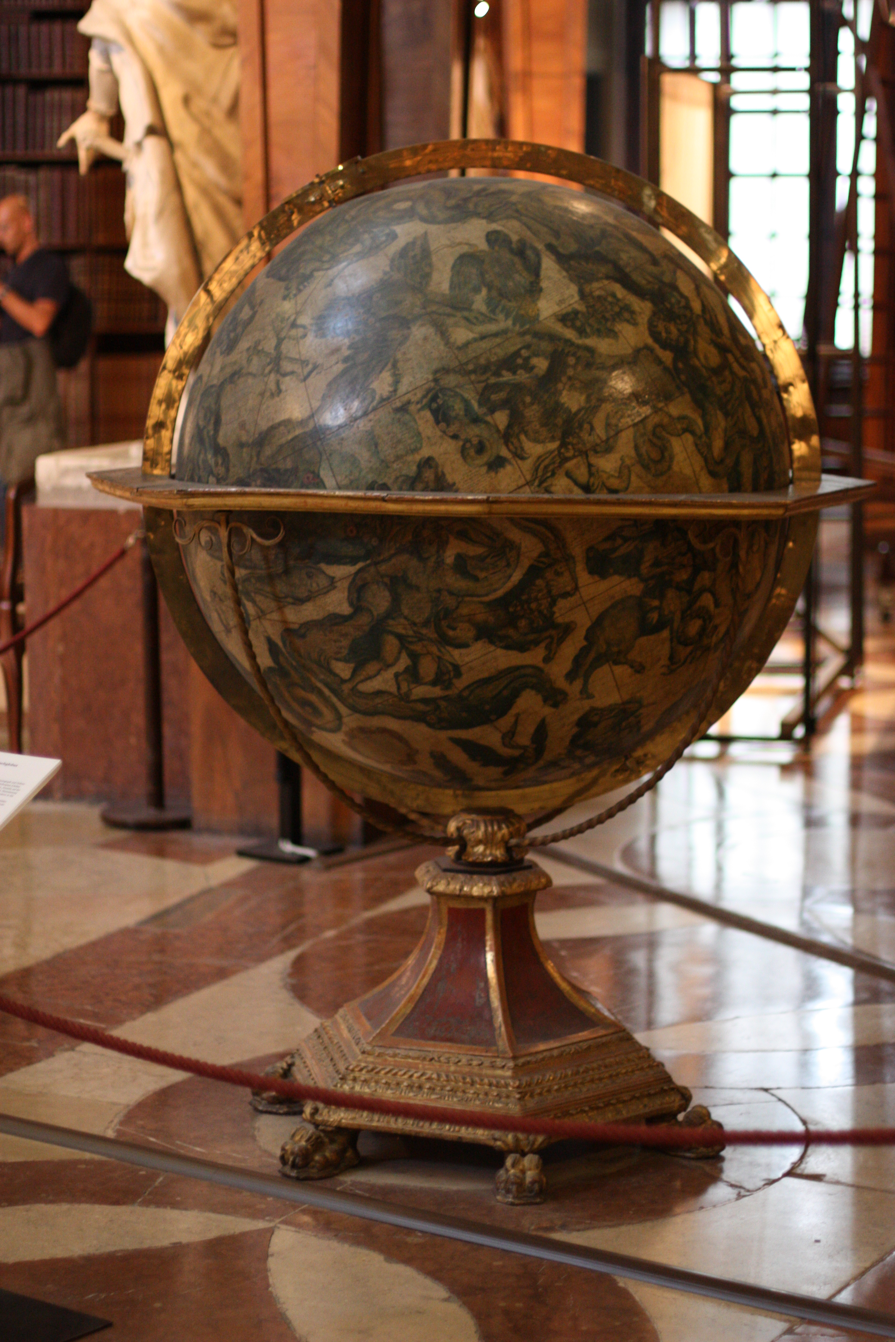 Globes in the State Hall of the Austrian National Library